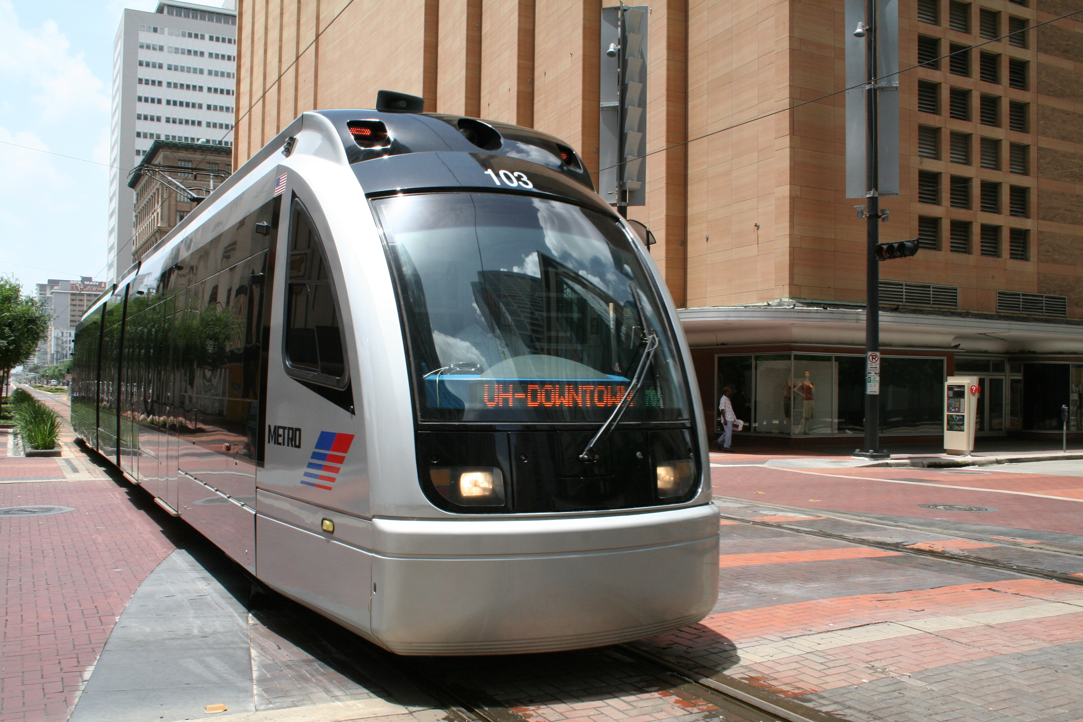 METRORail on Main Street in Downtown Houston